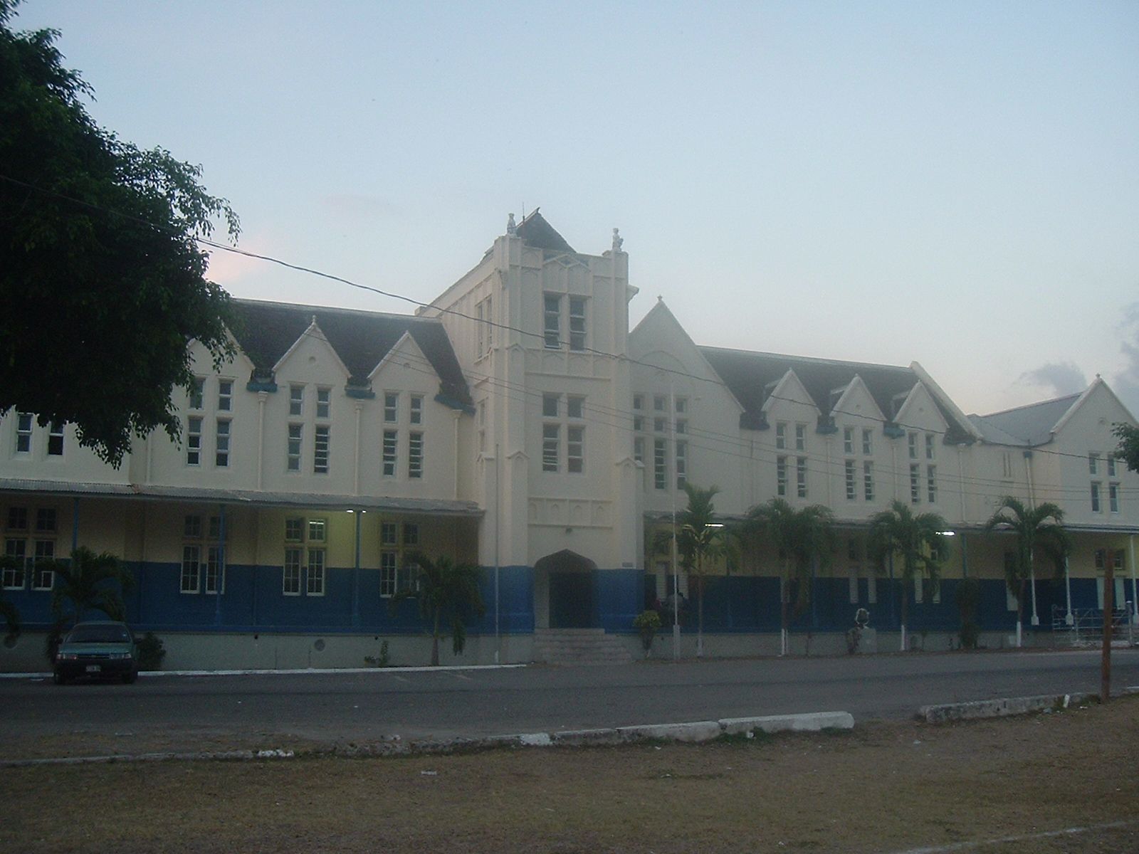 The "Sims Building". Staff Room (First floor: right), Sixth Form (Second floor)